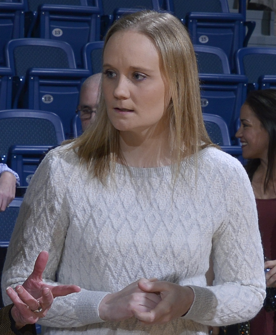 San Jose State University women's basketball head coach Jamie Craighead before a game at the U.S. Air Force Academy on Feb. 18, 2017 at Clune Arena, Colorado Springs, Colo.